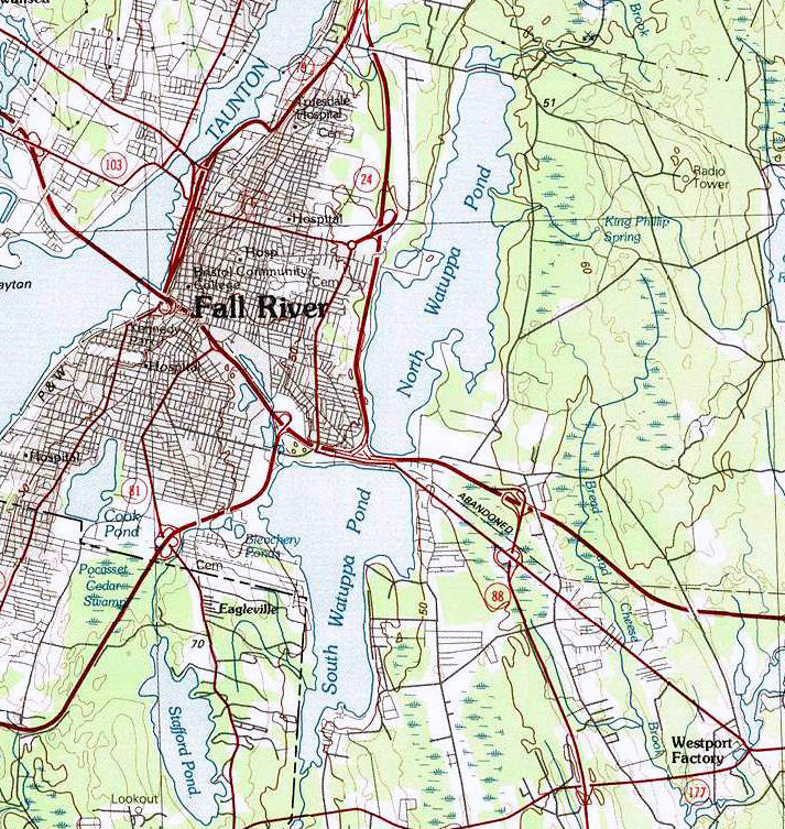 Map of Watuppa Ponds and surrounding areas. Fall River and Westport, Massachusetts